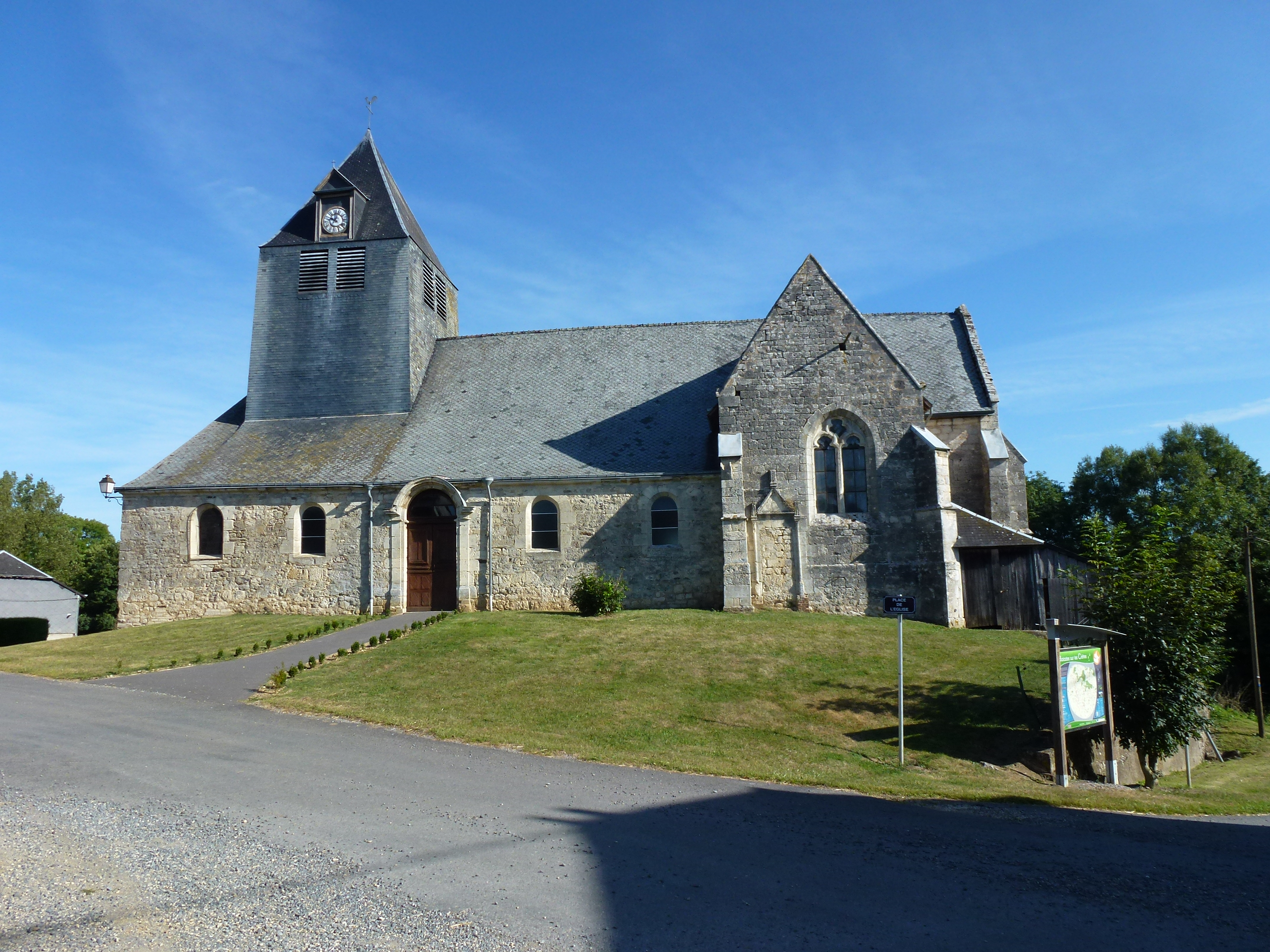 Wagnon (Ardennes) église, vue latérale